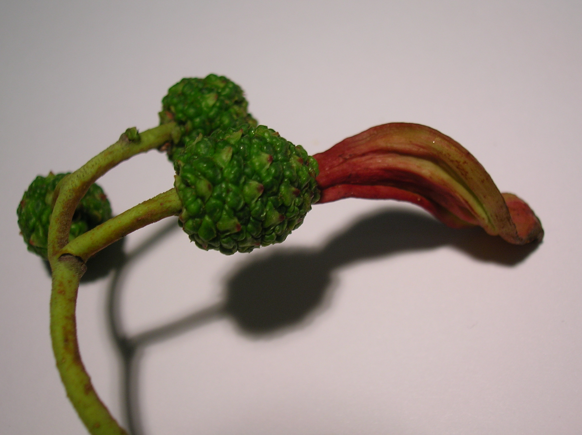 Taphrina alni gall on Alder. Young languet. Eglinton, Kilwinning, Ayrshire, Scotland.